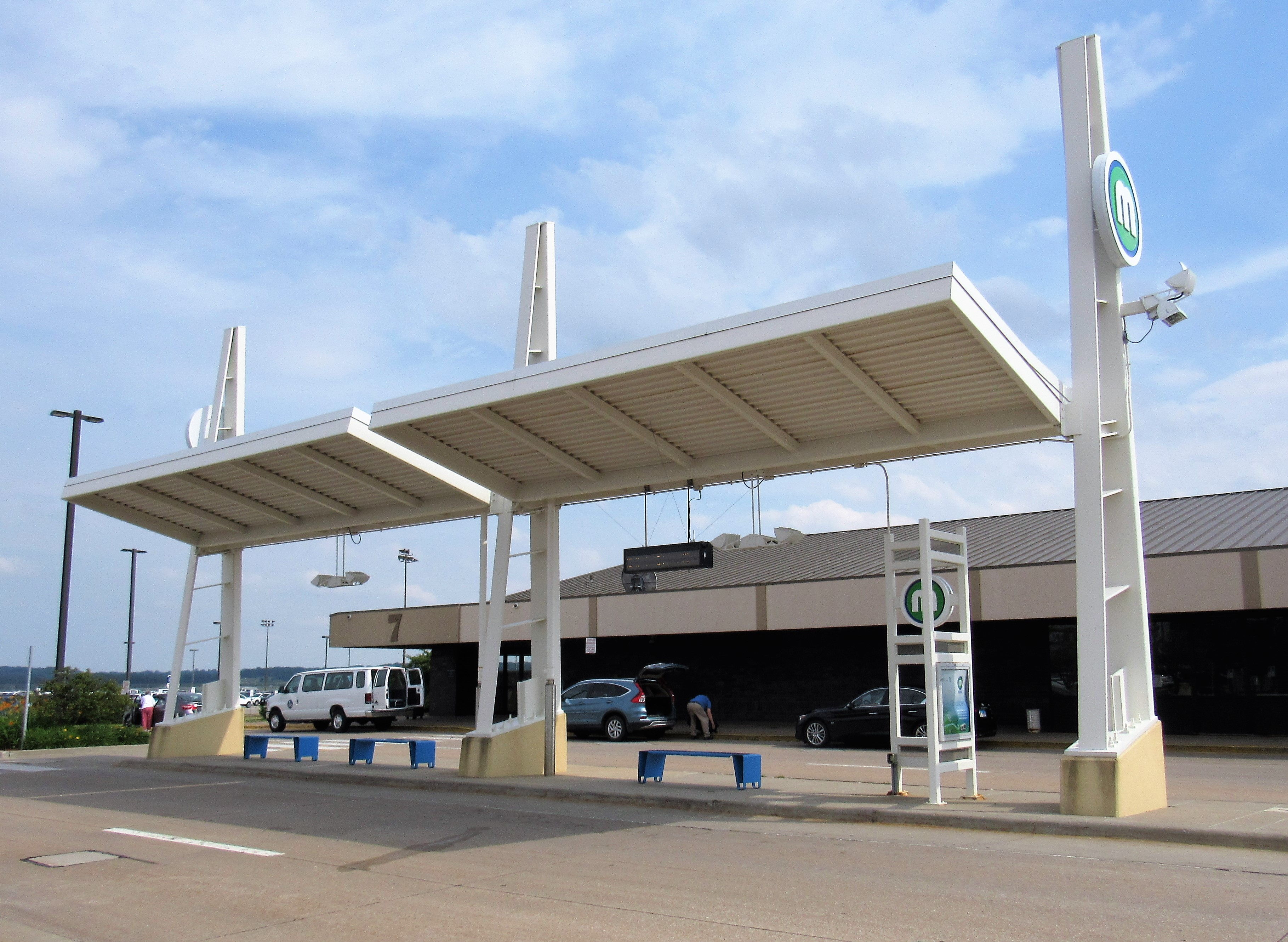 The MetroLINK stop at Quad City International Airport in Moline, Illinois.